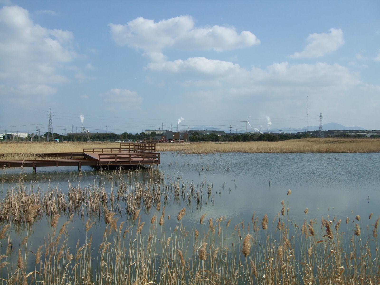 Hibikinada Biotope, Wakamatsu Ward, Kitakyushu City, Fukuoka, Japan.